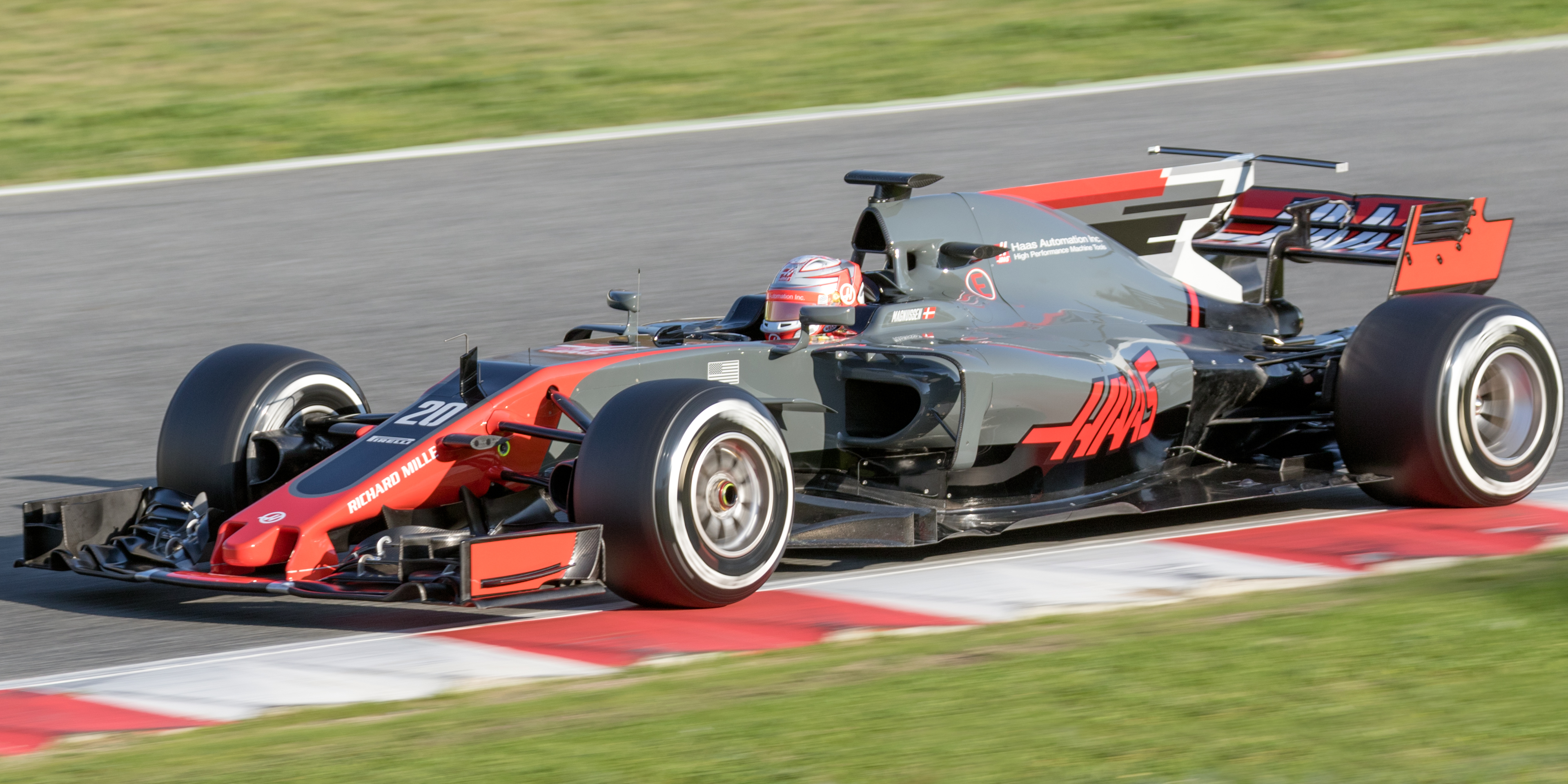 Formula One 2017 Catalonia test (27 February-2 March): Kevin Magnussen (Haas)